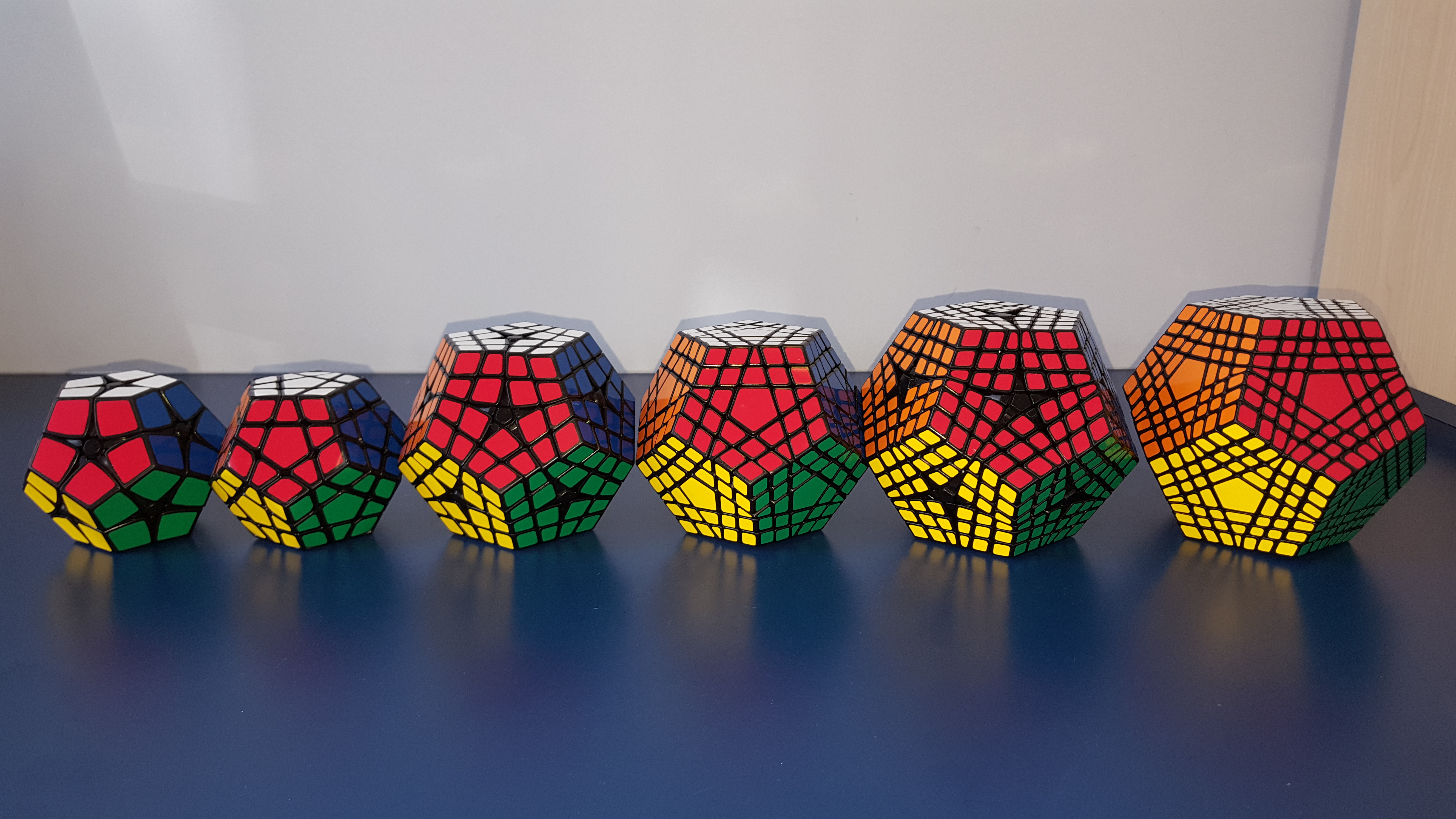 Kilominx, Megaminx, Master Kilominx, Gigaminx, Elite Kilominx, Teraminx (all made by Shengshou)